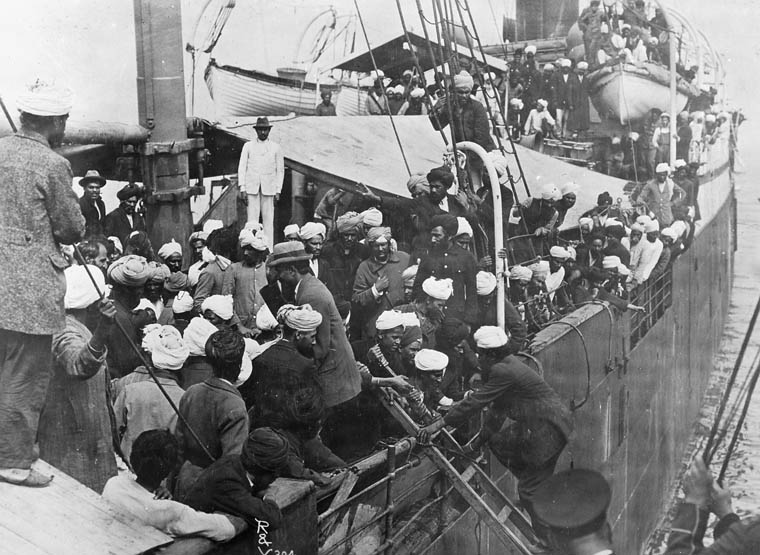 Sikhs on board the "Komogata Maru" in English Bay, Vancouver, British Columbia, Canada. 1914